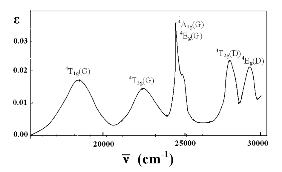 Absorption Spectrum of [Mn(H2O)6]2+.